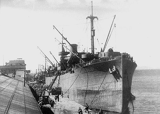 Loading infantry on ships during Kuril landing operation, August 1945.